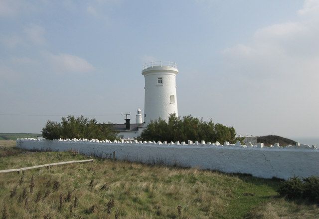 Old Lighthouse at Nash Point The old lighthouse stands some distance to the west of the present lighthouse, which is just visible in this photograph.